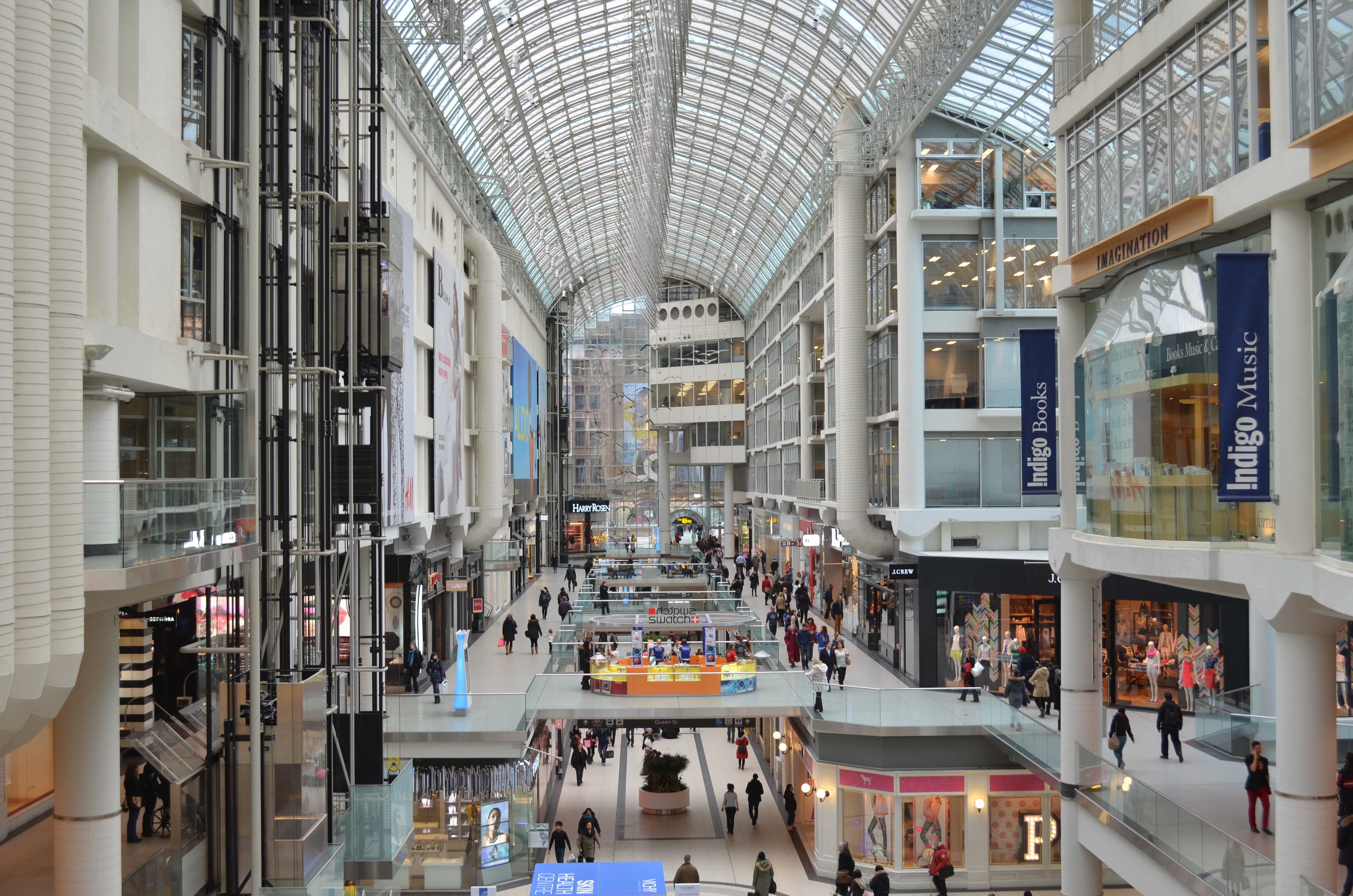 Toronto Eaton Center